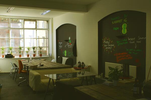 Coworking space London: Ministry of startups